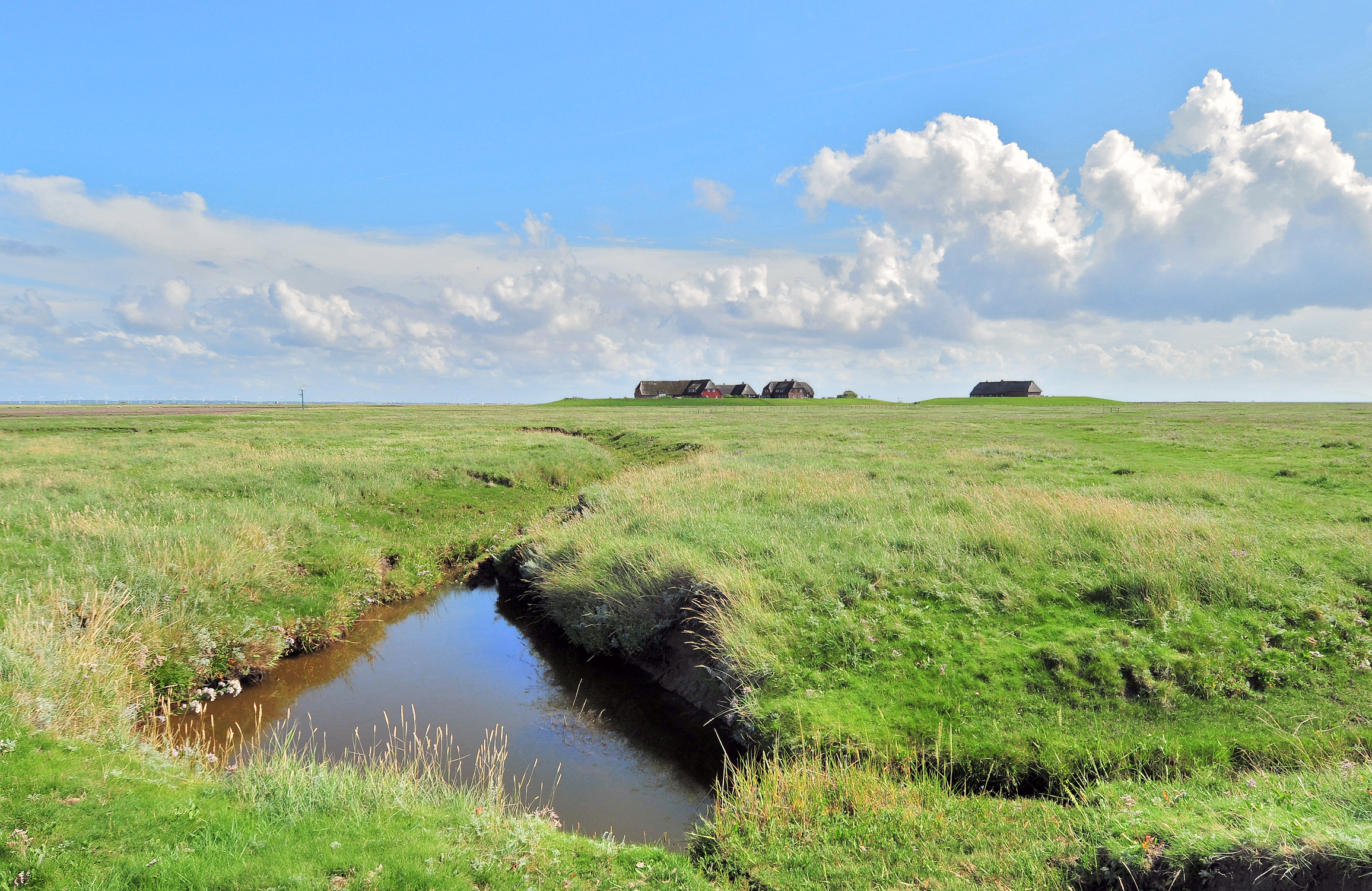 View to the Hallig Gröde. The Hallig Gröde is an islets in the Schleswig-Holstein Wadden Sea National Park. Hallig Gröde is not protected from storm surges, she is flooded completely twenty to thirty times a year. The Houses are built on high mounds with dykes. Therefore they can withstand the storm surges. The Hallig Gröde has two mounds. The Knudtswarft (left) has four buildings and a pond with rainwater. The Kirchwarft (right) has the graveyard and one building with the church and the school.